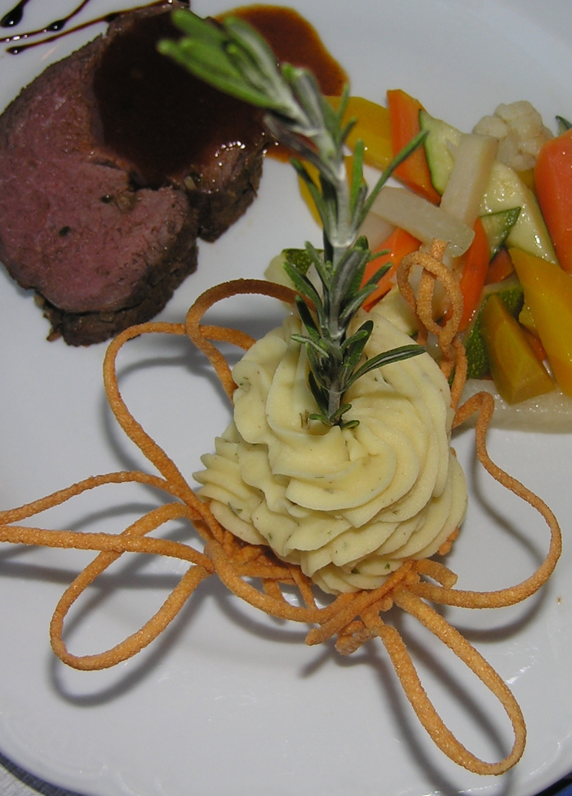 Potato mash, as served in the Swiss mountain restaurant as Schynige Platte